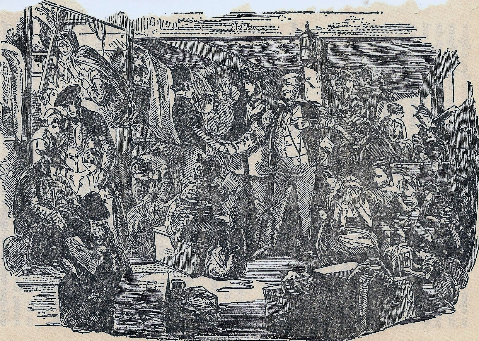 Farewell on board before departing for Australia (David Copperfield) , by Phiz.